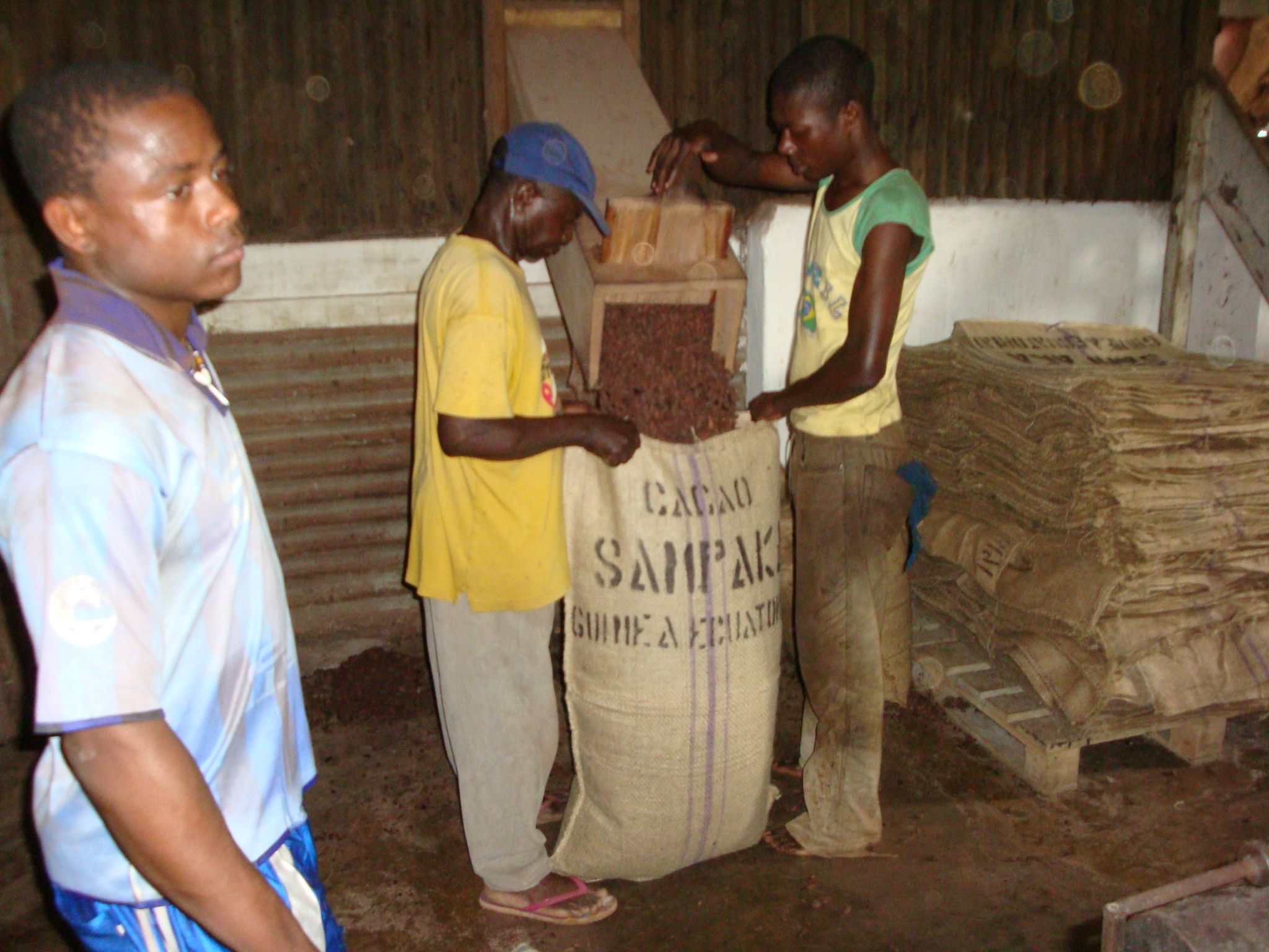 Dried cacao bags This is an image with the theme "Africa on the Move or Transport" from: Equatorial Guinea